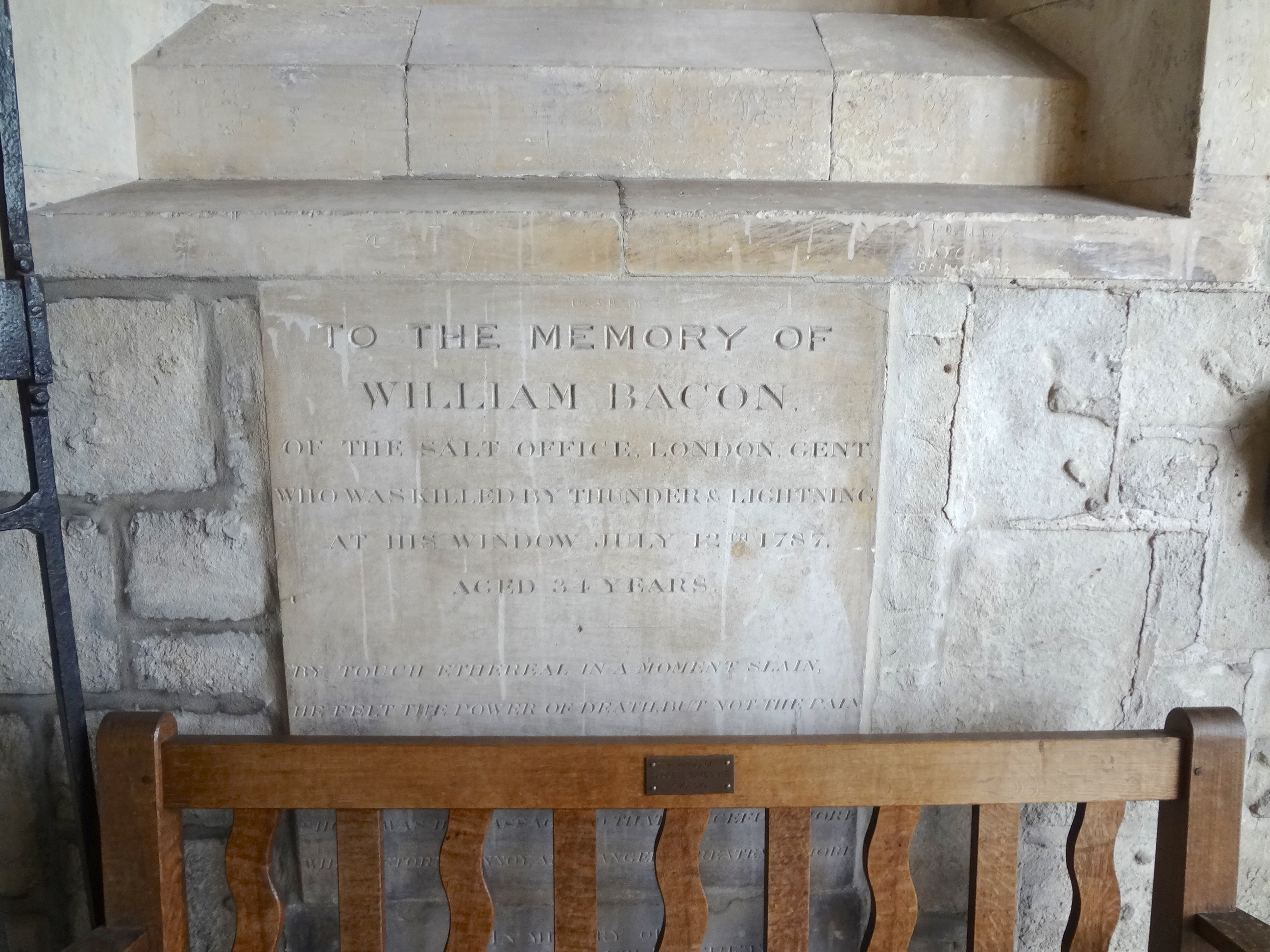 William Bacon memorial. "To the memory of William Bacon of the Salt Office London, Gent, who was killed by the thunder & lightning at his window July 12th 1787. Aged 34 years."